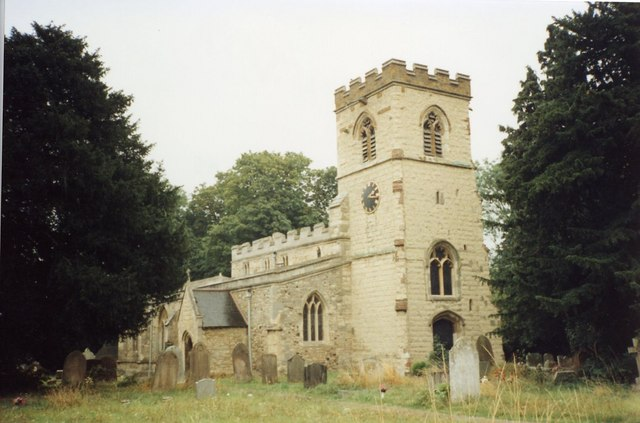 Church of England parish church of St Faith, Newton Longville, Buckinghamshire: view from the northwest